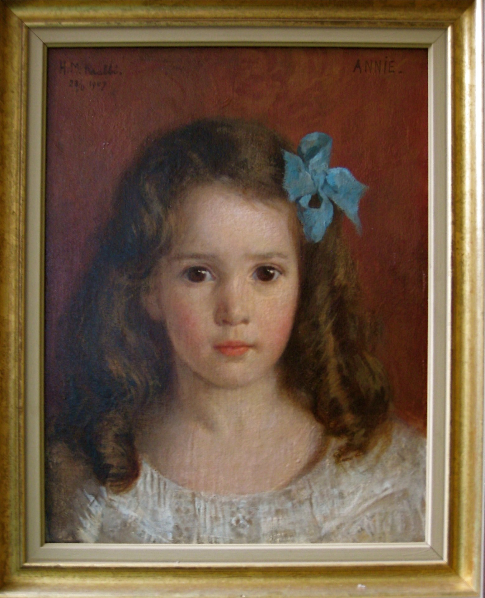 Painting of Annie Nicolette Zadoks-Josephus Jitta by H.M. Krabbé